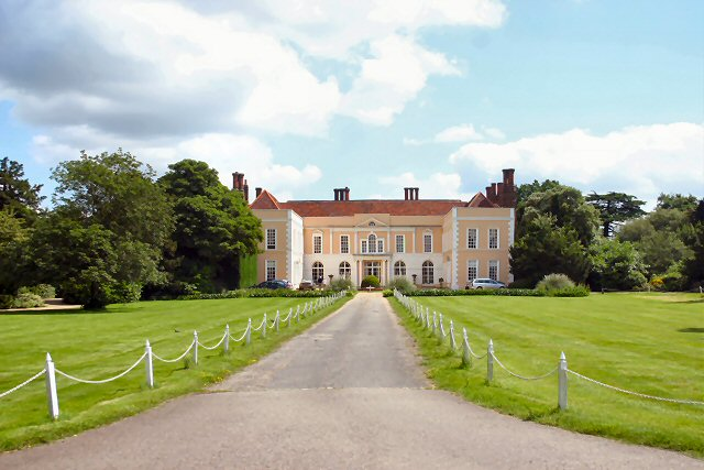 Driveway to Hintlesham Hall